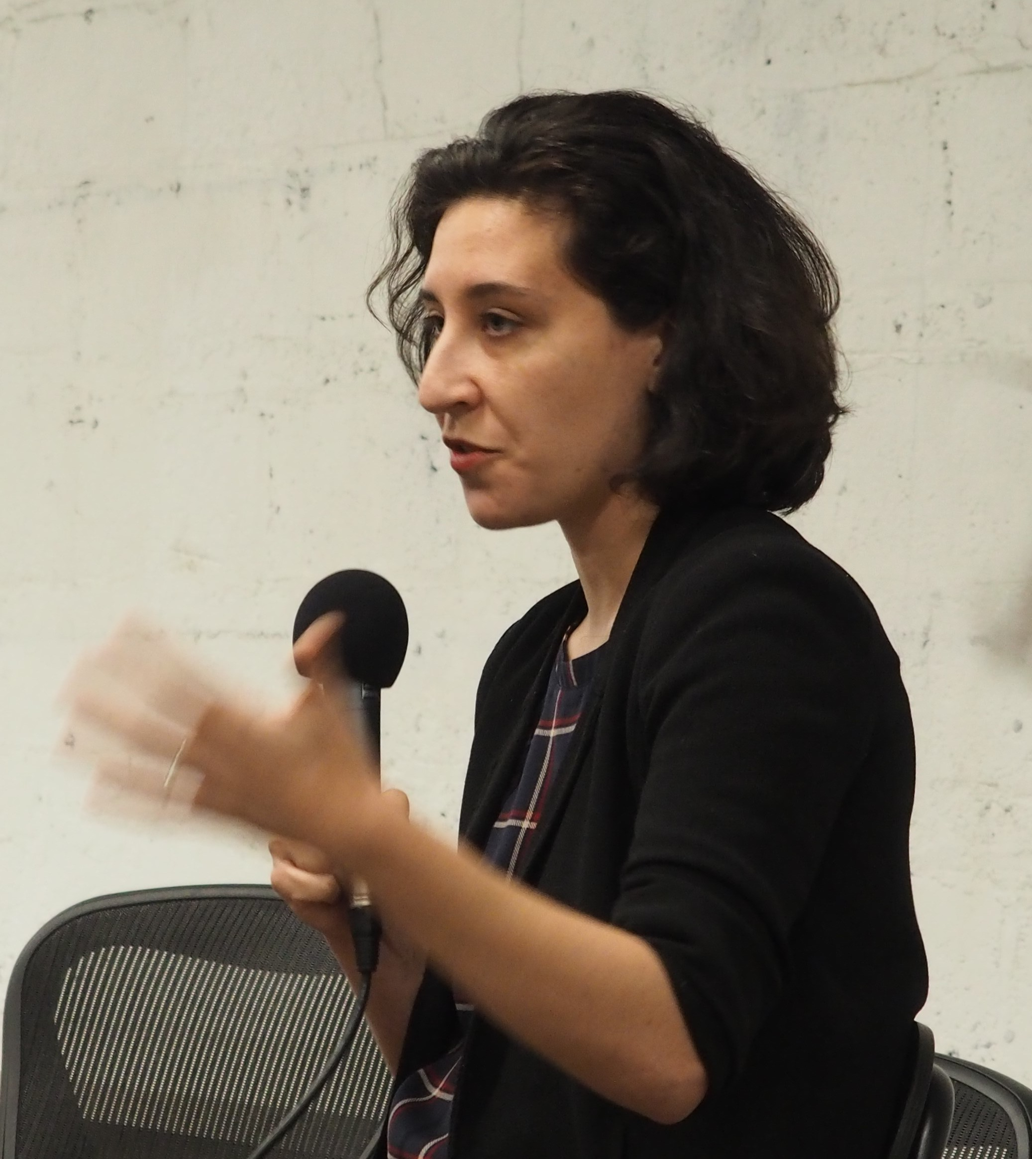 reading at Politics and Prose, Washington, D.C.